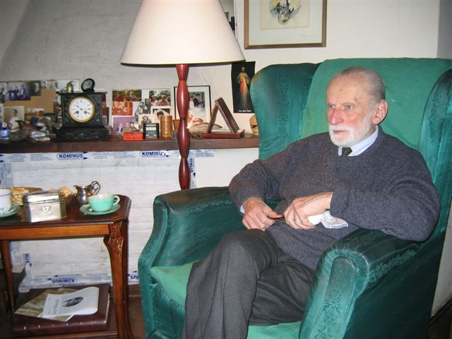 Jacek Woźniakowski (1920-2012), Polish writer, editor and translator